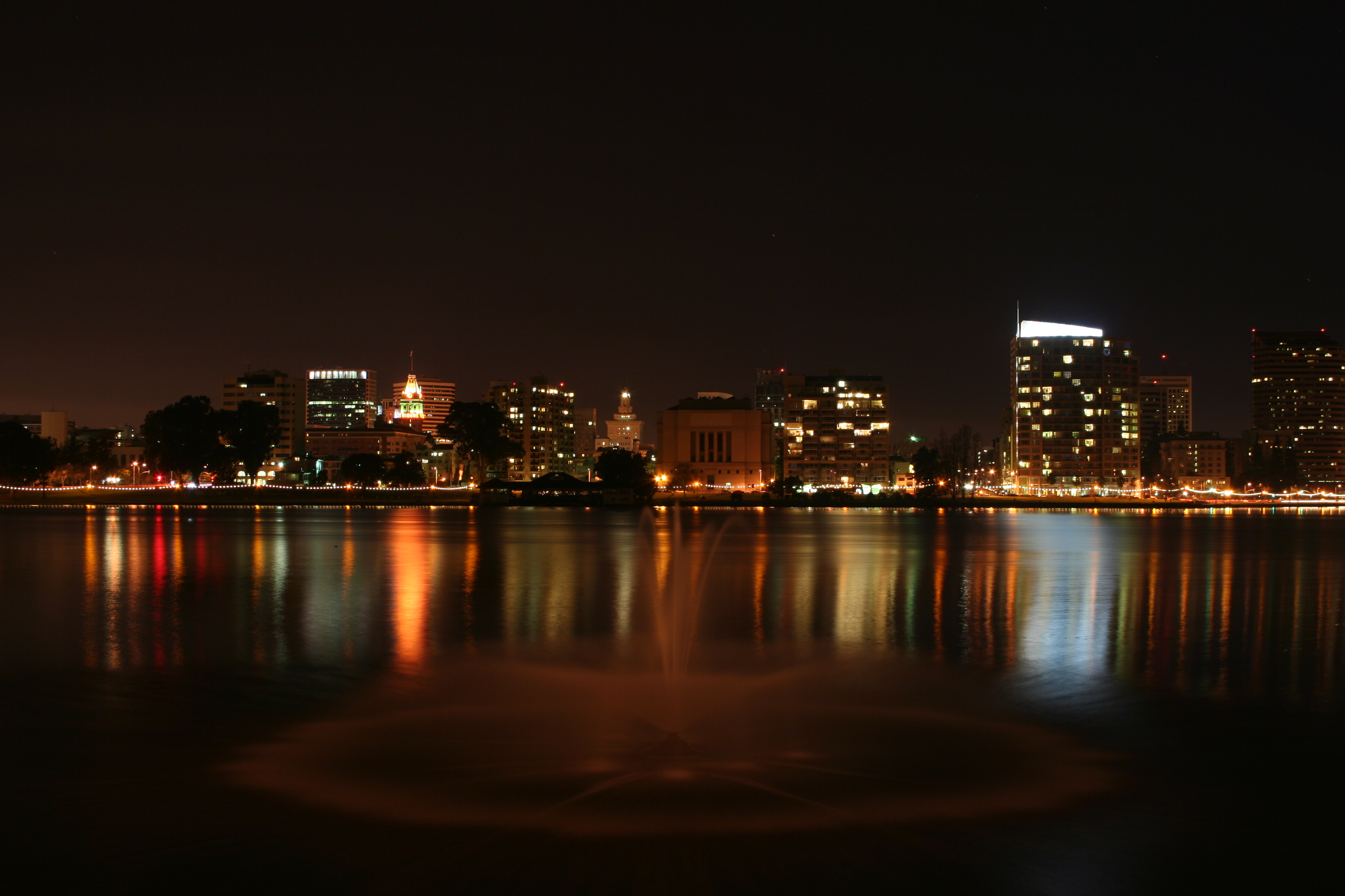 Photographed by and copyright of (c) David Corby (User:Miskatonic, uploader) 2006 Lake Merrit Oakland California looking west at the Tribune Building